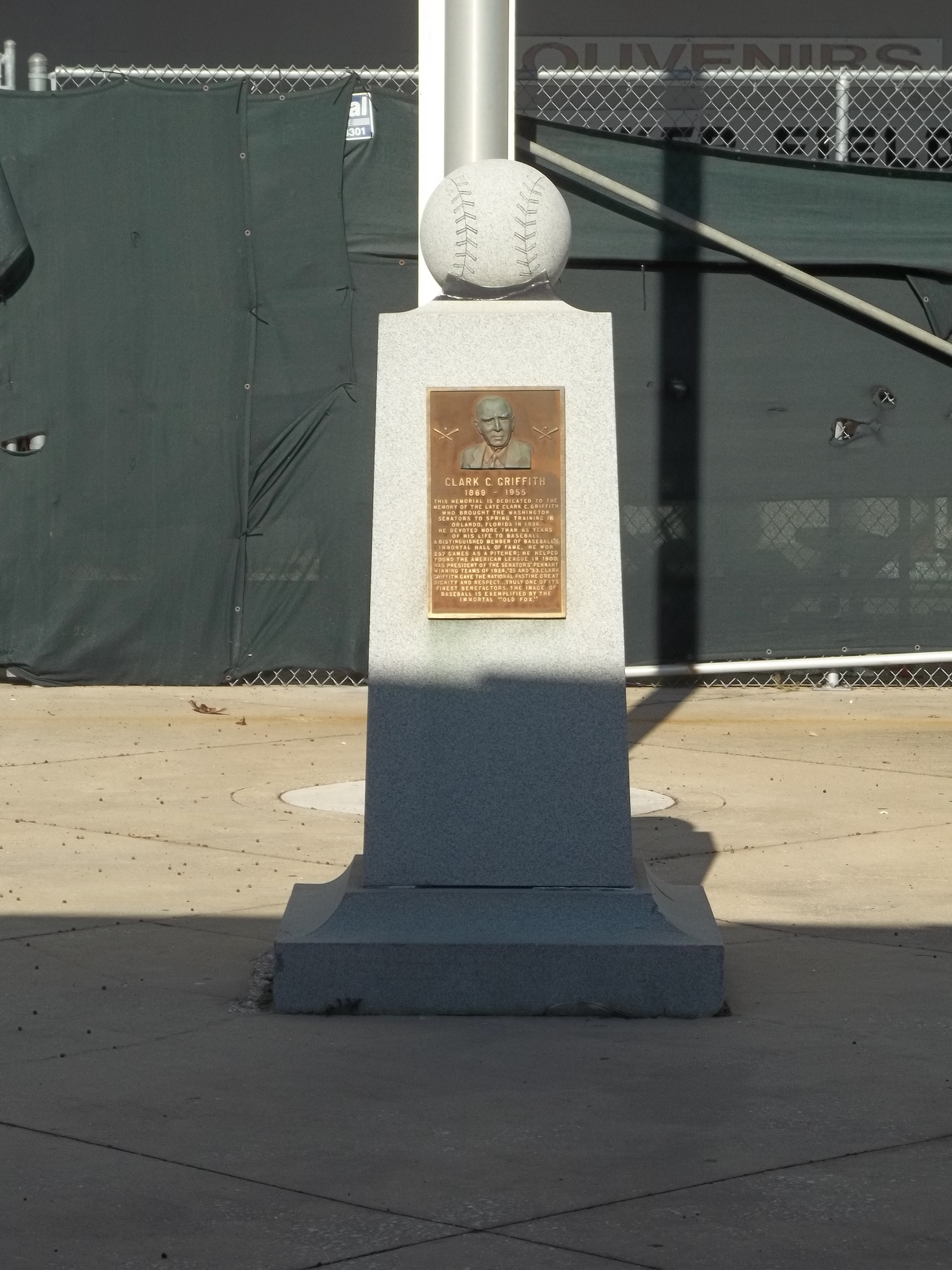 Orlando, Florida: Tinker Field: Memorial to Clark C. Griffith